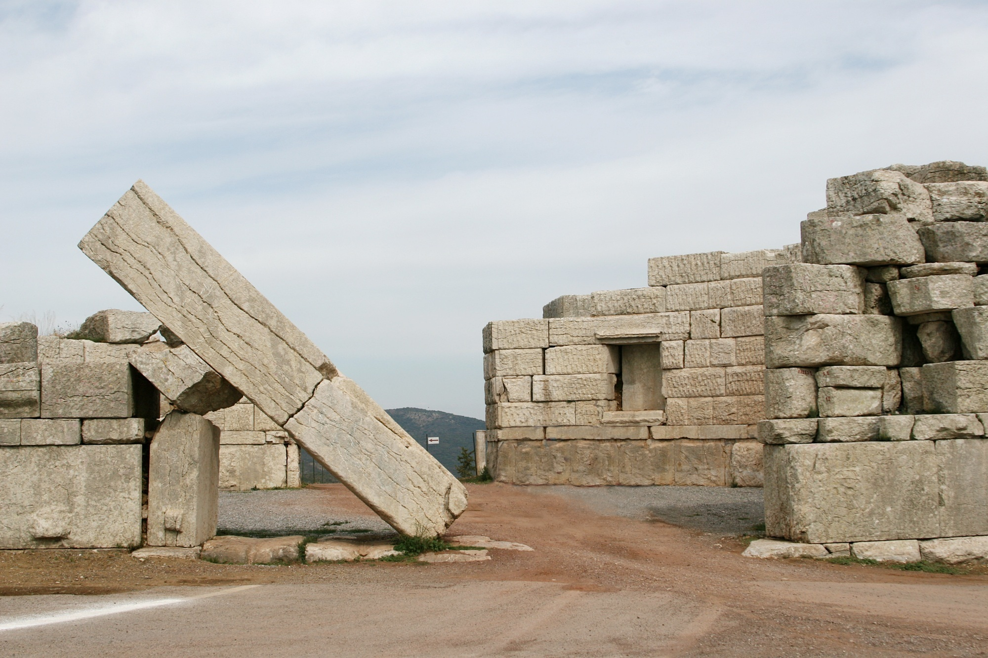 Messene, the arcadian gate.